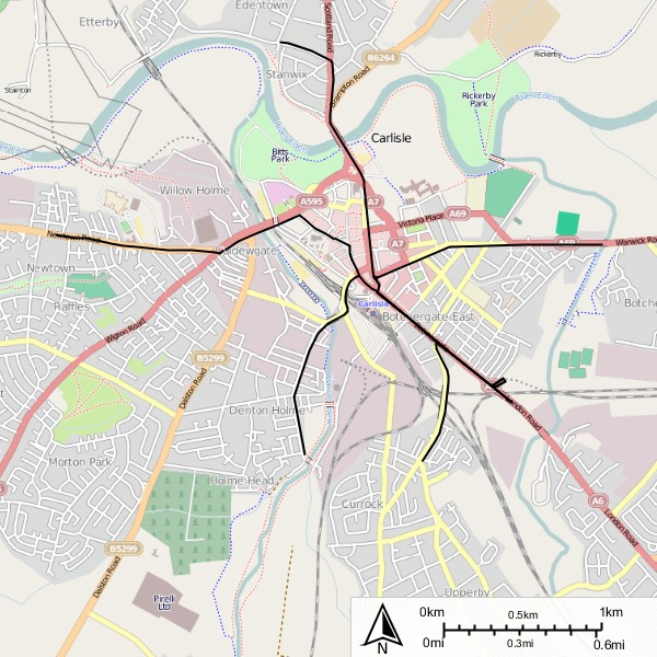 City of Carlisle Electric Tramways Legend: *━━━ Primary lines *━━━ Secondary lines *━━━ Tertiary lines